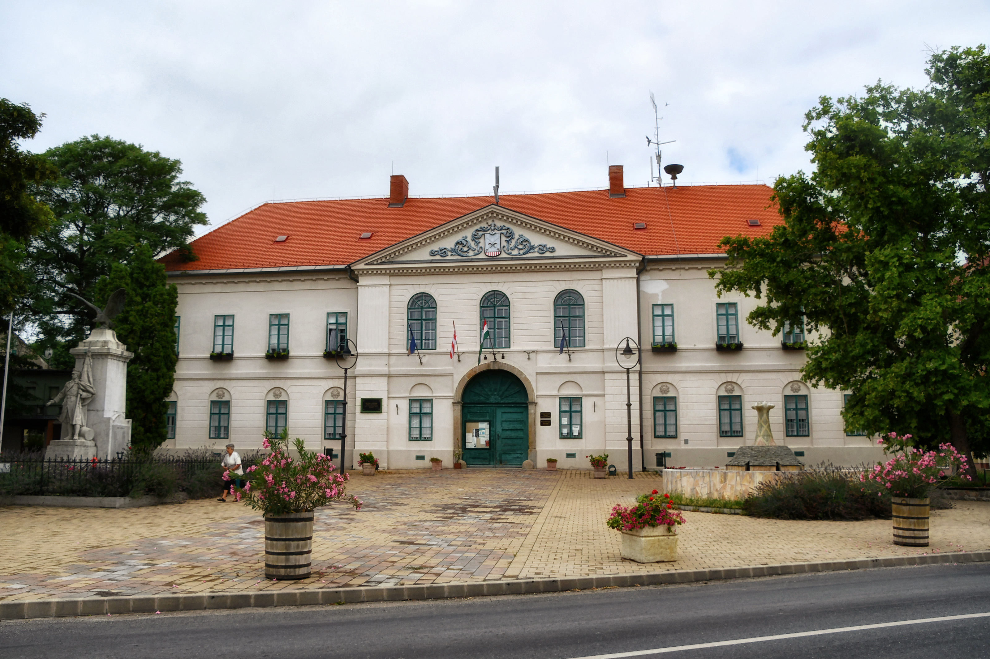 Town hall in Kunszentmiklós, Hungary